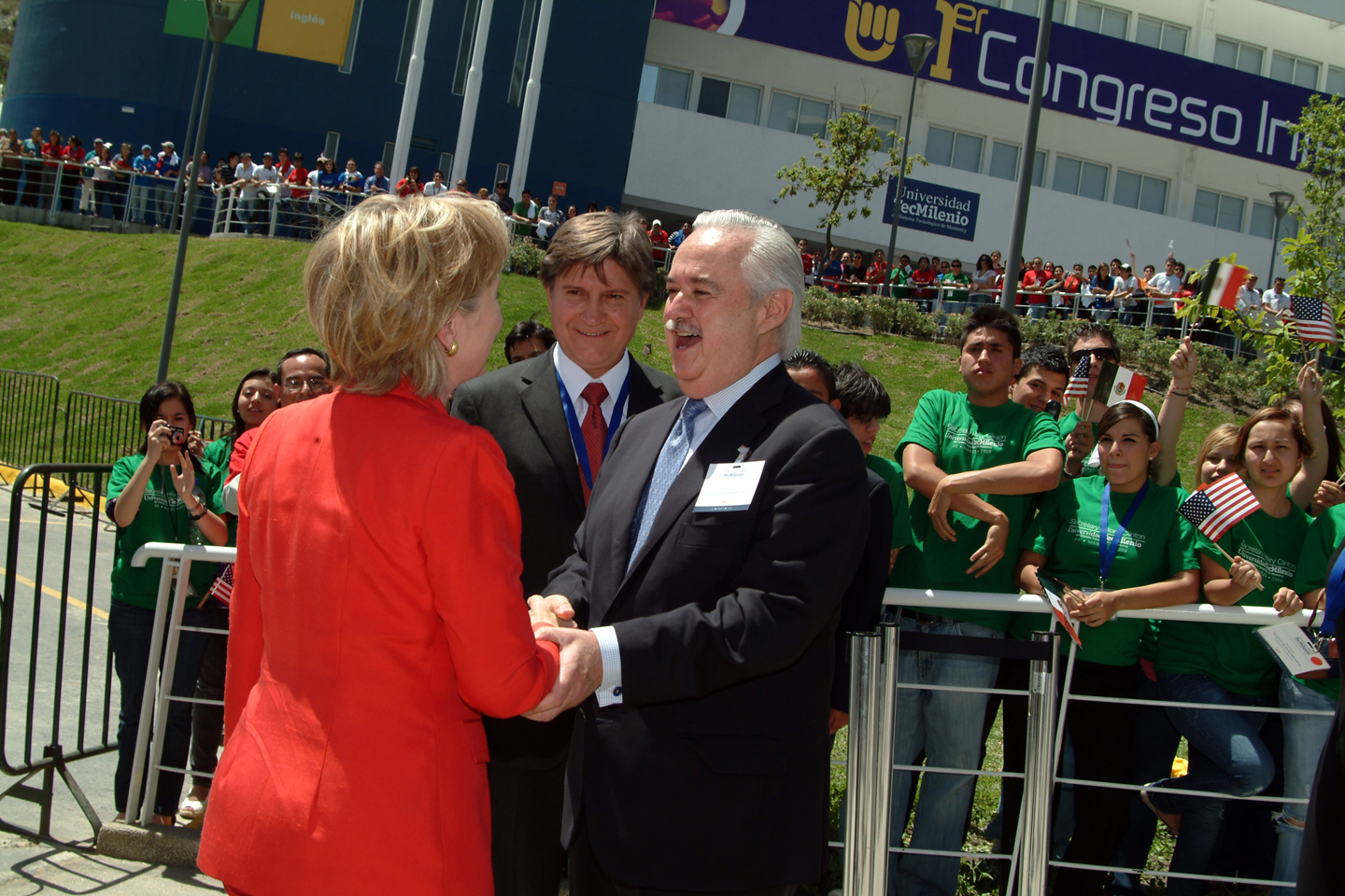 U.S. Secretary of State Hillary Rodham Clinton is greeted at TecMilenio University by Carlos Cruz Limón, Vice-rector of Innovation and Development of ITESM (center) and Lorenzo Zambrano, President of the Board of Directors of ITESM (right) in Monterrey, Mexico.